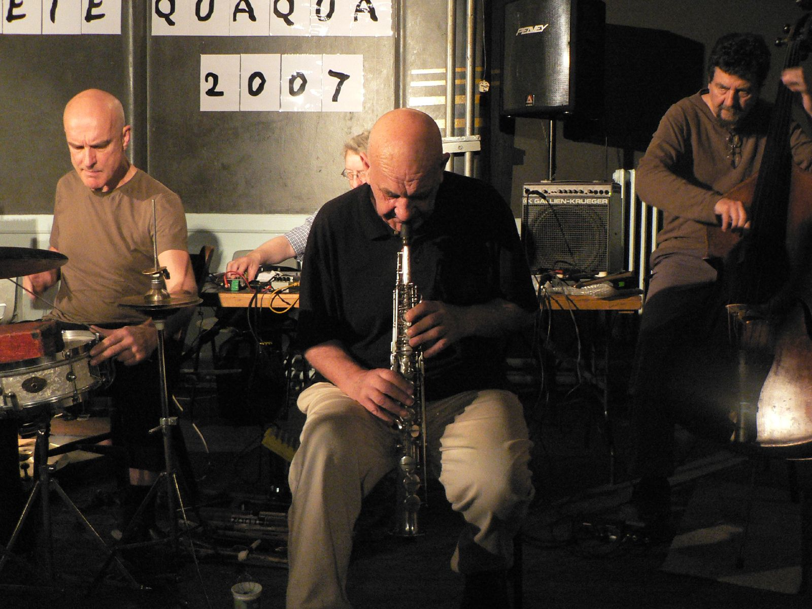 Fete Qua Qua, London